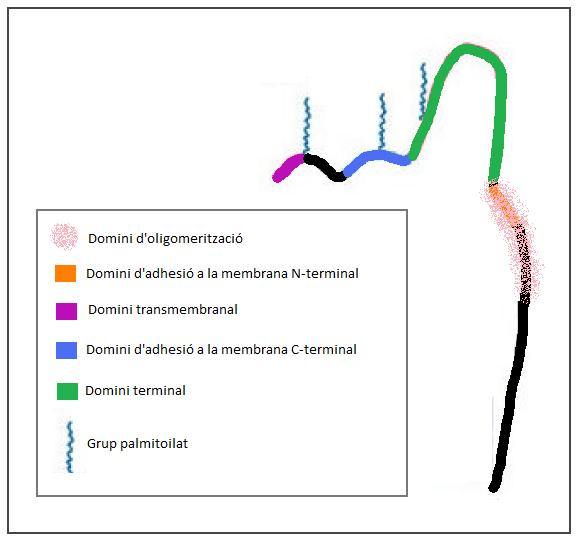 Estructura de la caveolina